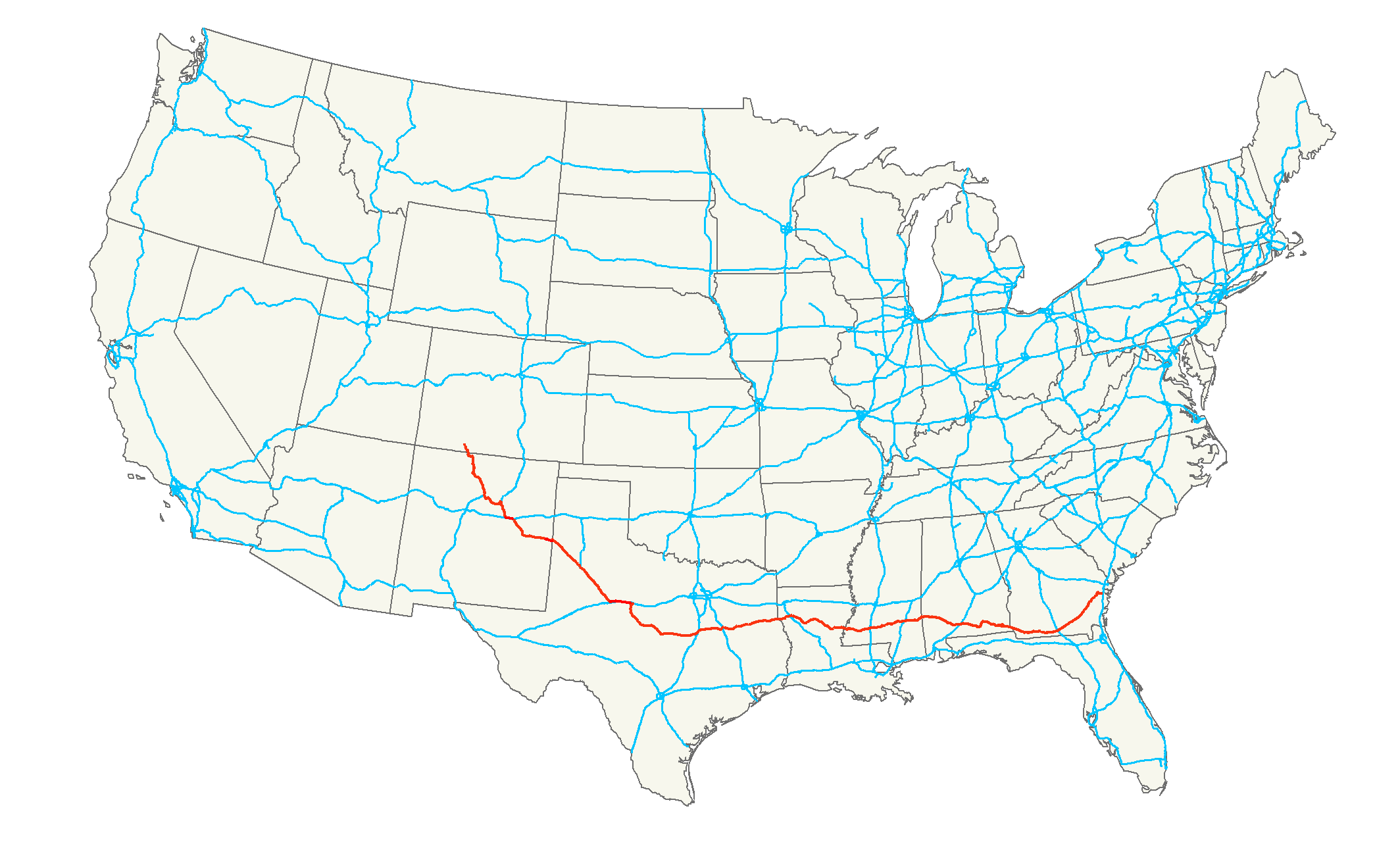 Map of U.S. Route 84